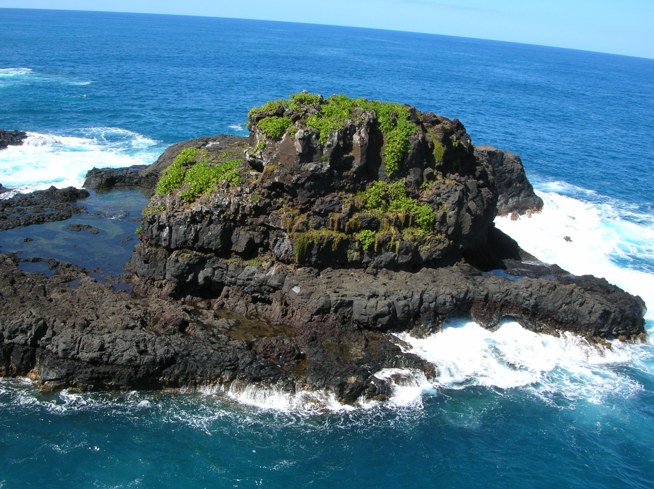 Ficus microcarpa (habitat). Location: Maui, Mokupipi